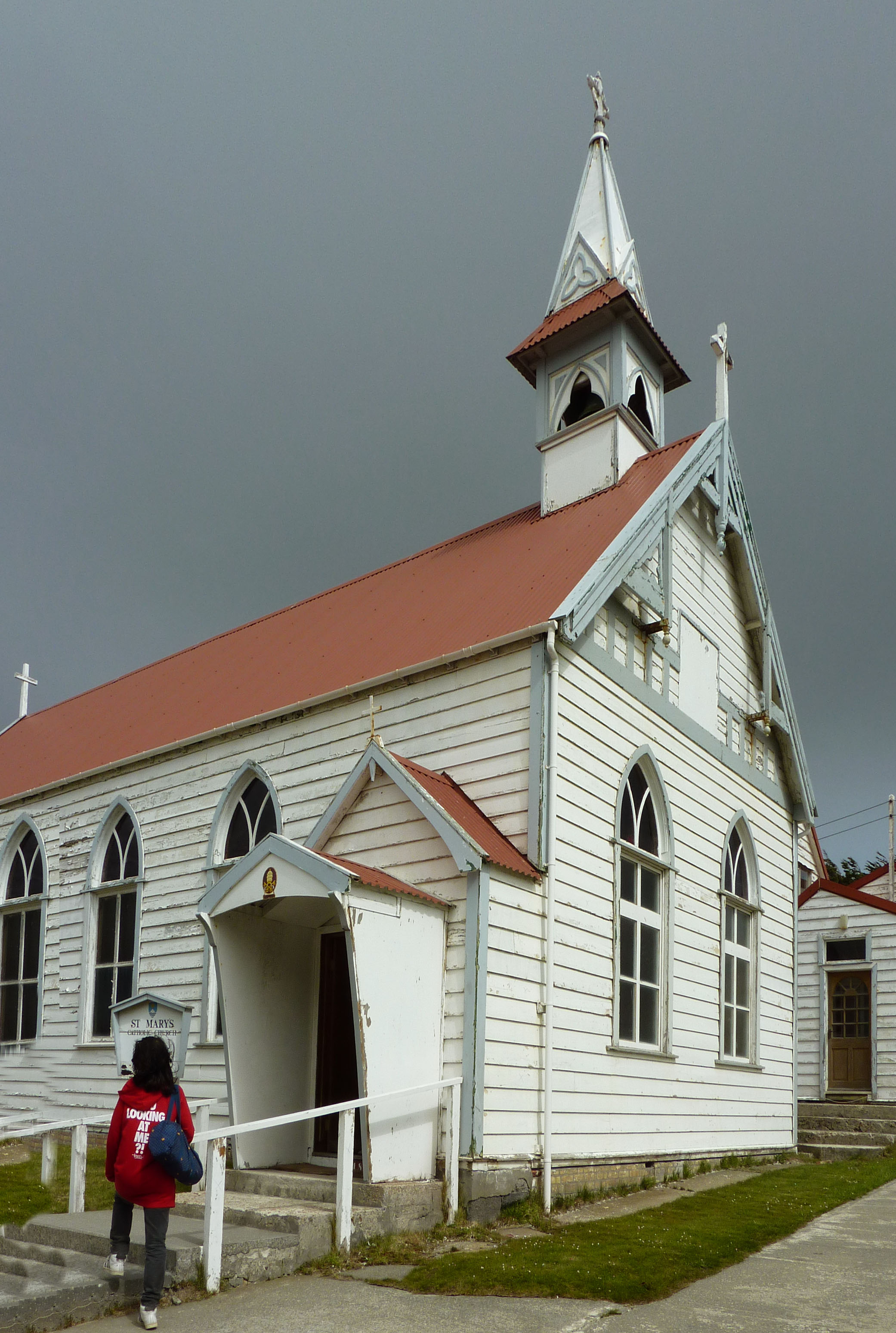 Catholic church, Stanley, Falkland Islands